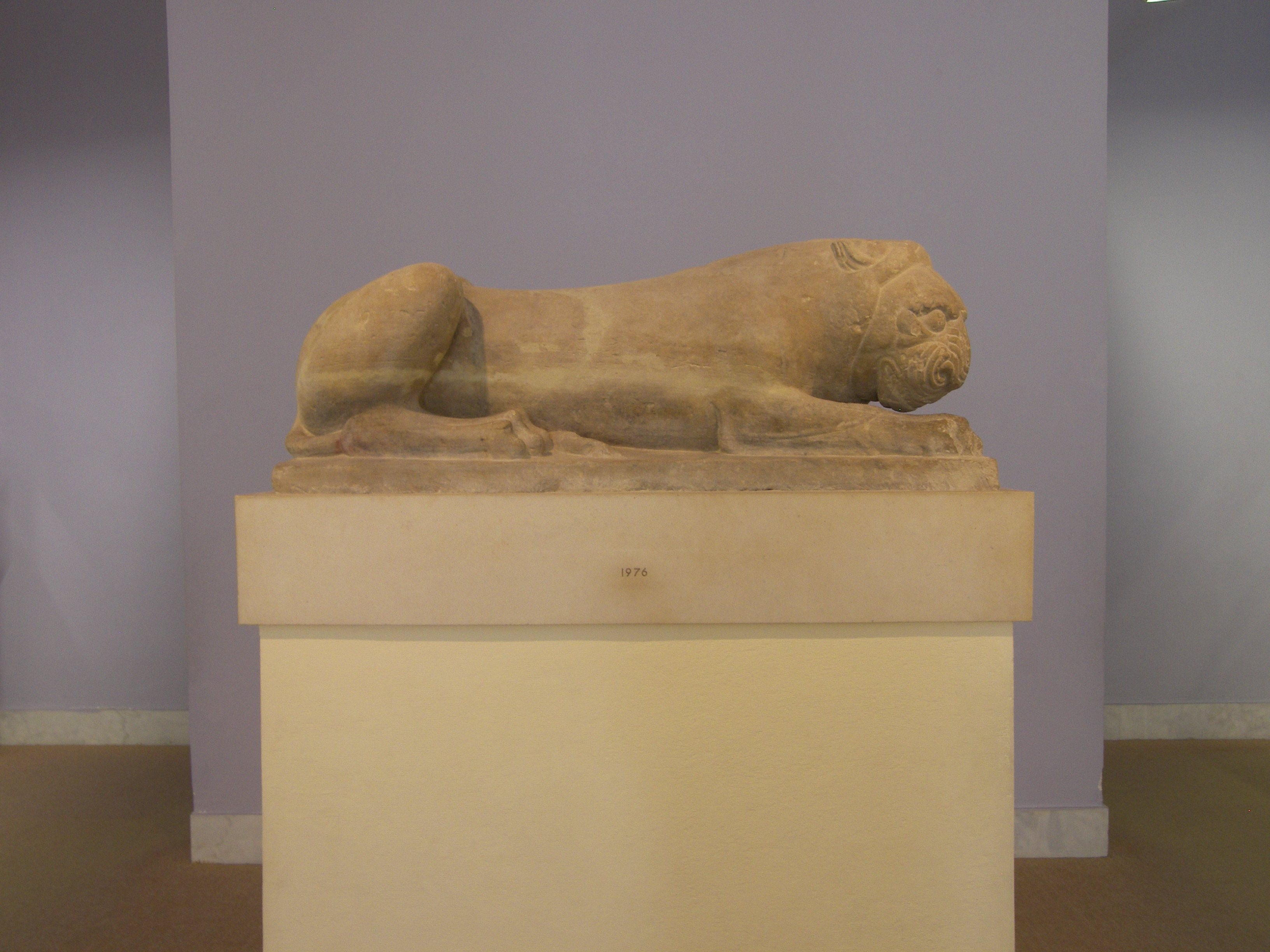 The "Lion of Menecrates". Funerary statue of a crouching lion, found near the cenotaph of Menecrates. Work of a famous Corinthian sculptor of the Archaic Greece, end of the 7th century BC, Archaeological Museum of Corfu. The Lion of Menecrates. Funerary statue of a crouching lion, found near the cenotaph of Menecrates. This is the work of a famous Corinthian sculptor of the Archaic period. Dated end of the 7th century B.C.